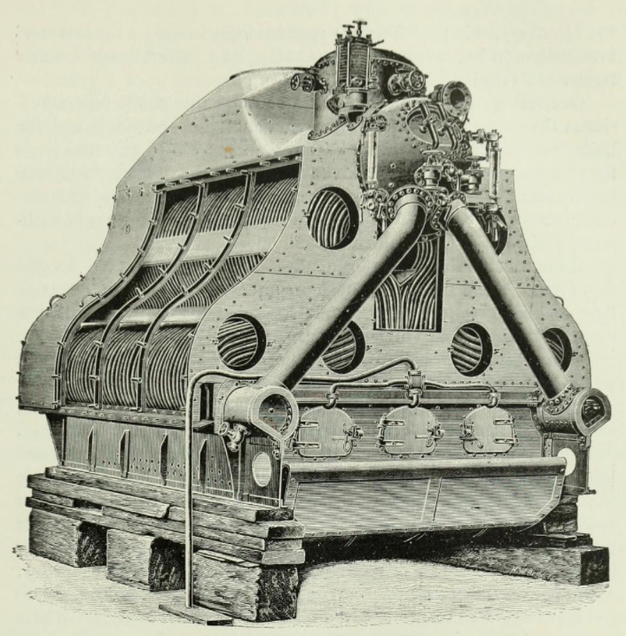 Reed water tube boiler of about 1900 built by Palmers Shipbuilding and Iron Company, Jarrow, England. The incomplete casing reveals the internal arrangement of water tubes. Coal was fed into the boiler through the three hatches on the side nearest the viewer. "A speciality of [Palmers' engine works] is the manufacture of the "Reed" water-tube boiler, the invention of Mr J. W. Reed, manager of the engine works department, which has been adopted with well-known results in ... high-speed [torpedo boat destroyers] ..., and also in vessels constructed for the Admiralty on the Clyde. It may be observed that nearly 25 miles of tubes are used in the manufacture of the boilers and machinery of each 30-knot destroyer." (Malcolm Dillon (1900), Some Account of the Works of Palmers Shipbuilding and Iron Company, pp. 33–4)